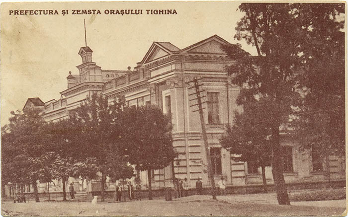 Tighina County Town Hall between the wars.